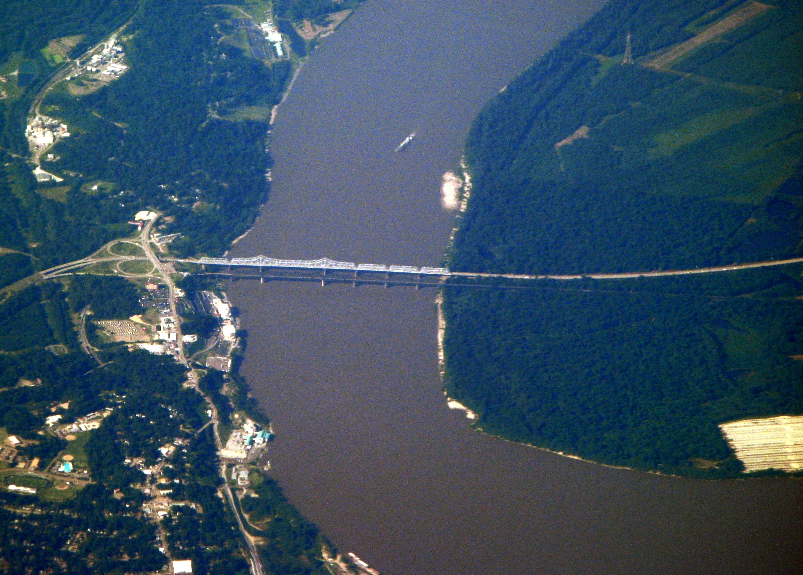 New Vicksburg bridge (top, white) and old Vicksburg bridge (below, dark) over the the Mississippi River near Vicksburg Mississippi. Photo is looking south. The old bridge is now a rail bridge, while the new one carries Interstate 20. Vicksburg MS, is in the lower left corner, while Delta, LA is to the right of the frame.